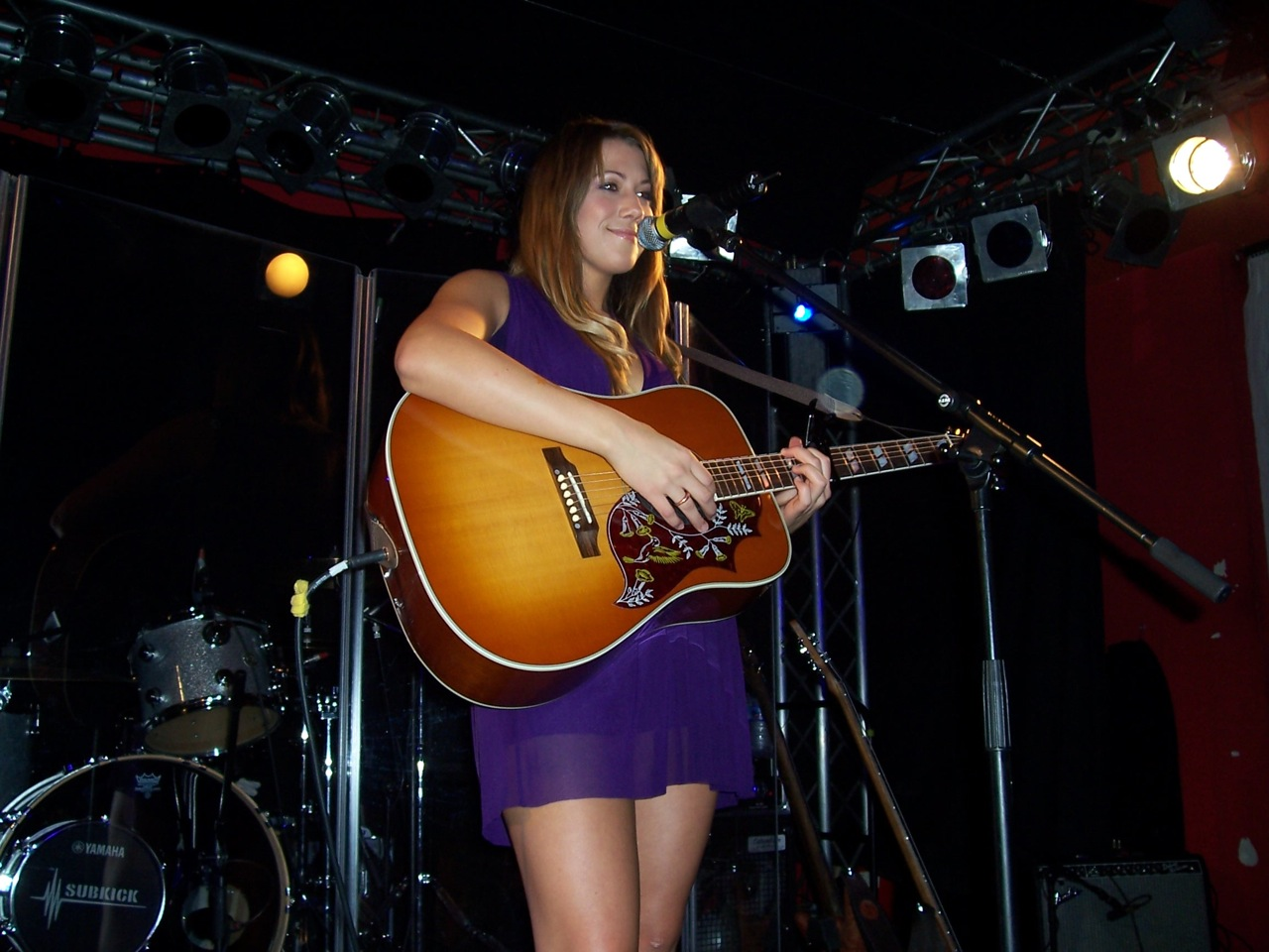 Colbie Caillat (17.11.2007) - Frannz Club Berlin, Germany depicted person: Colbie Caillat (age: 22.47)